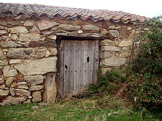 A typical house of Escalonilla (Ávila, Castilla y León).